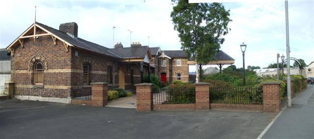 Cookstown Railway Station Looking east